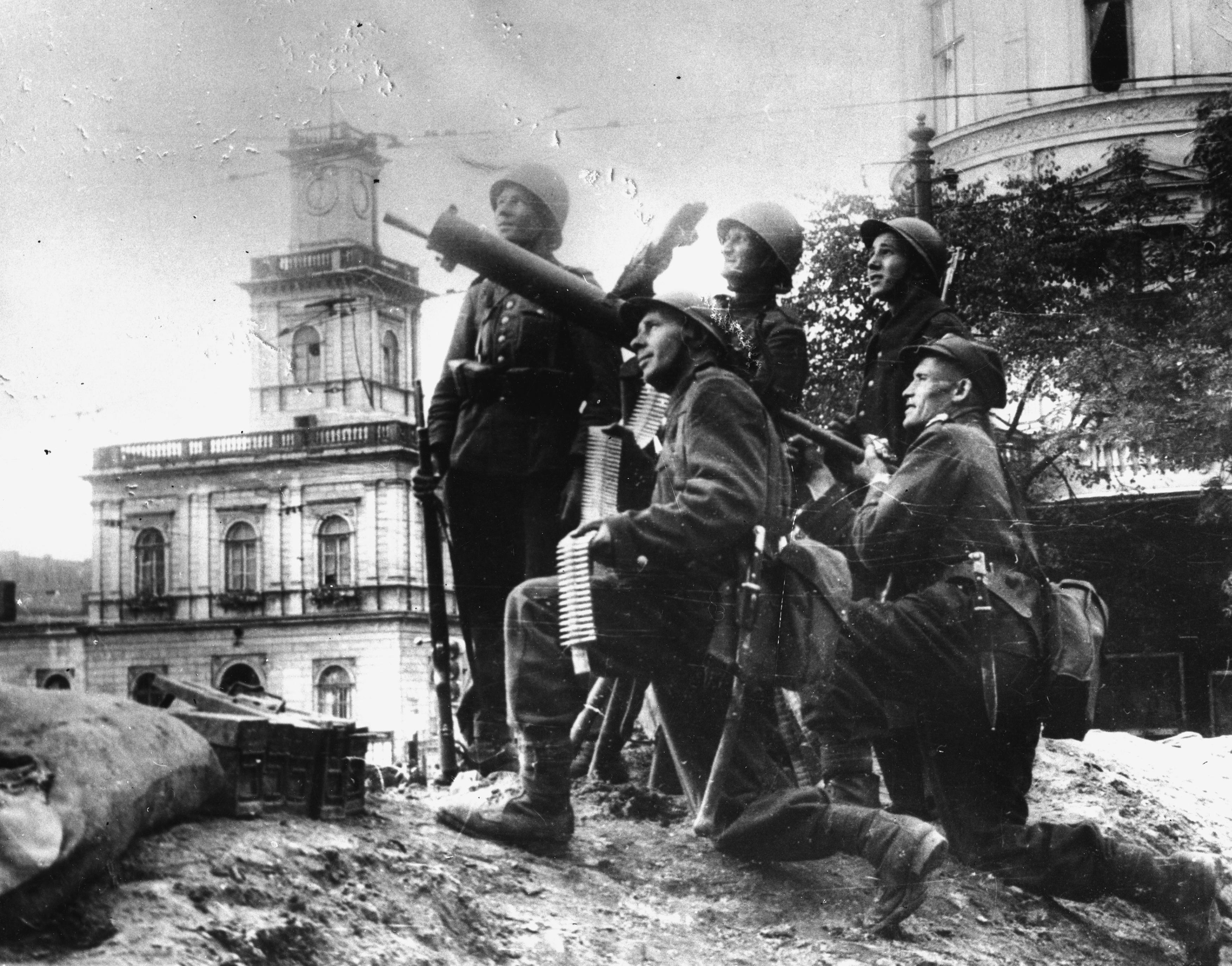 Polish soldiers from anti-aircraft artillery unit during the Siege of Warsaw by the Germans in September 1939.